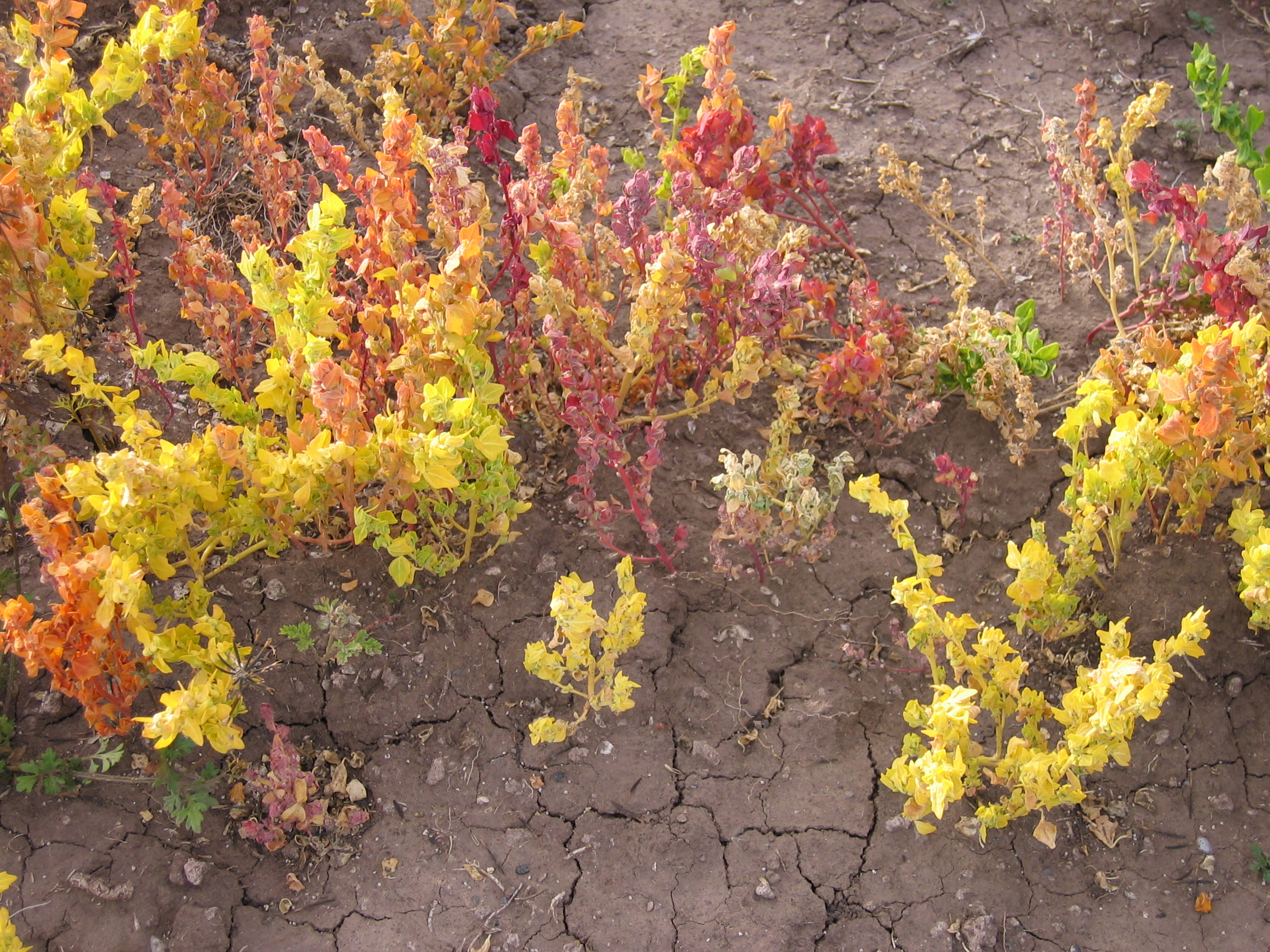 Cañihua, a native grain of the Andes of southern Peru and Bolivia, is supremely adapted to the high altitudes of the altiplano, the Andean plain that harbors Lake Titicaca. The grain is important on the high plateau of Peru and Bolivia because it has excellent protein quality (as other chenopods) and outstanding iron content. Location: Atuncolla, near Sillustani, Juliaca, Peru, altitude: ca. 3900 m